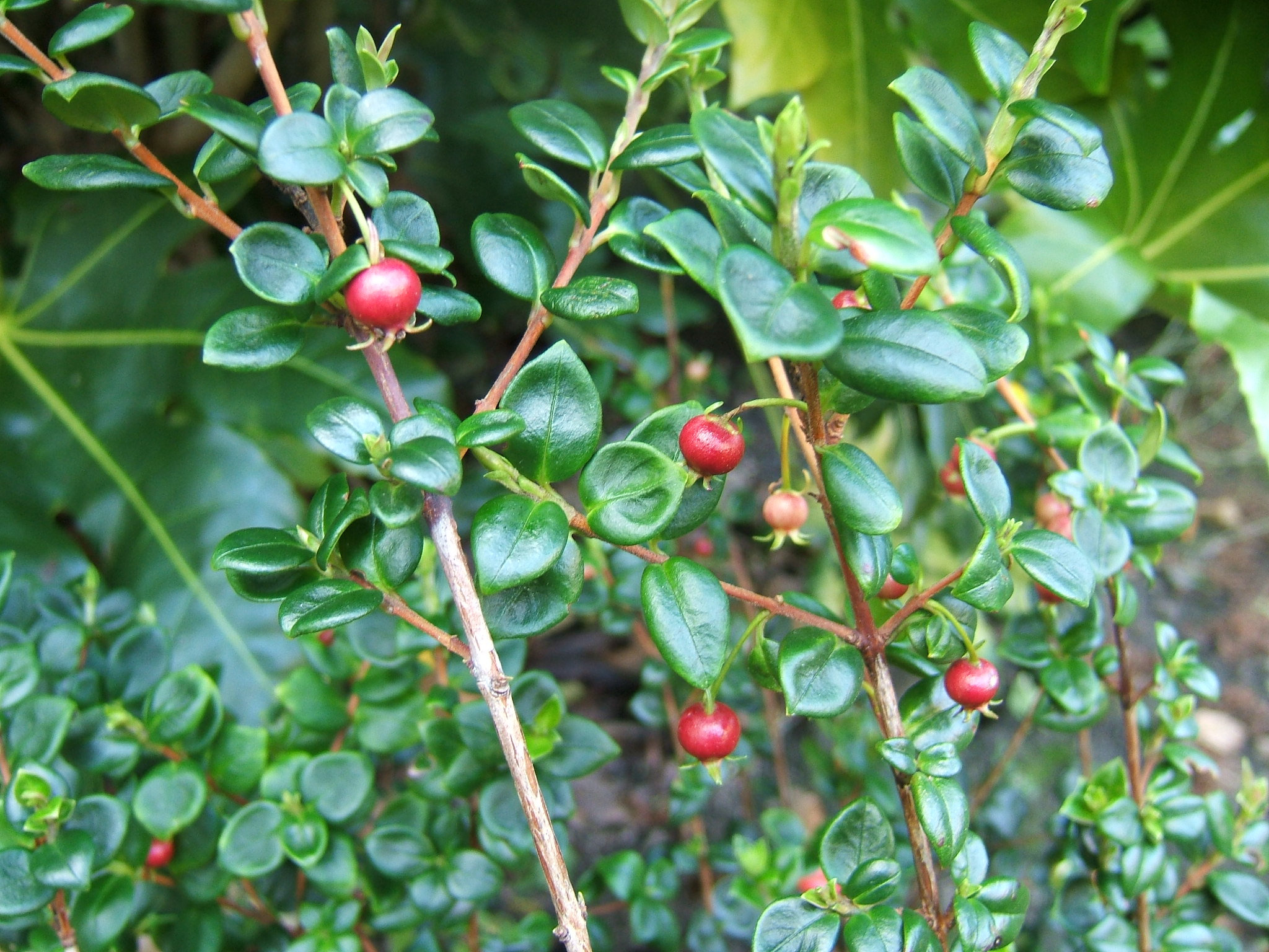 Ugni molinae foliage and fruit - cultivated, UK